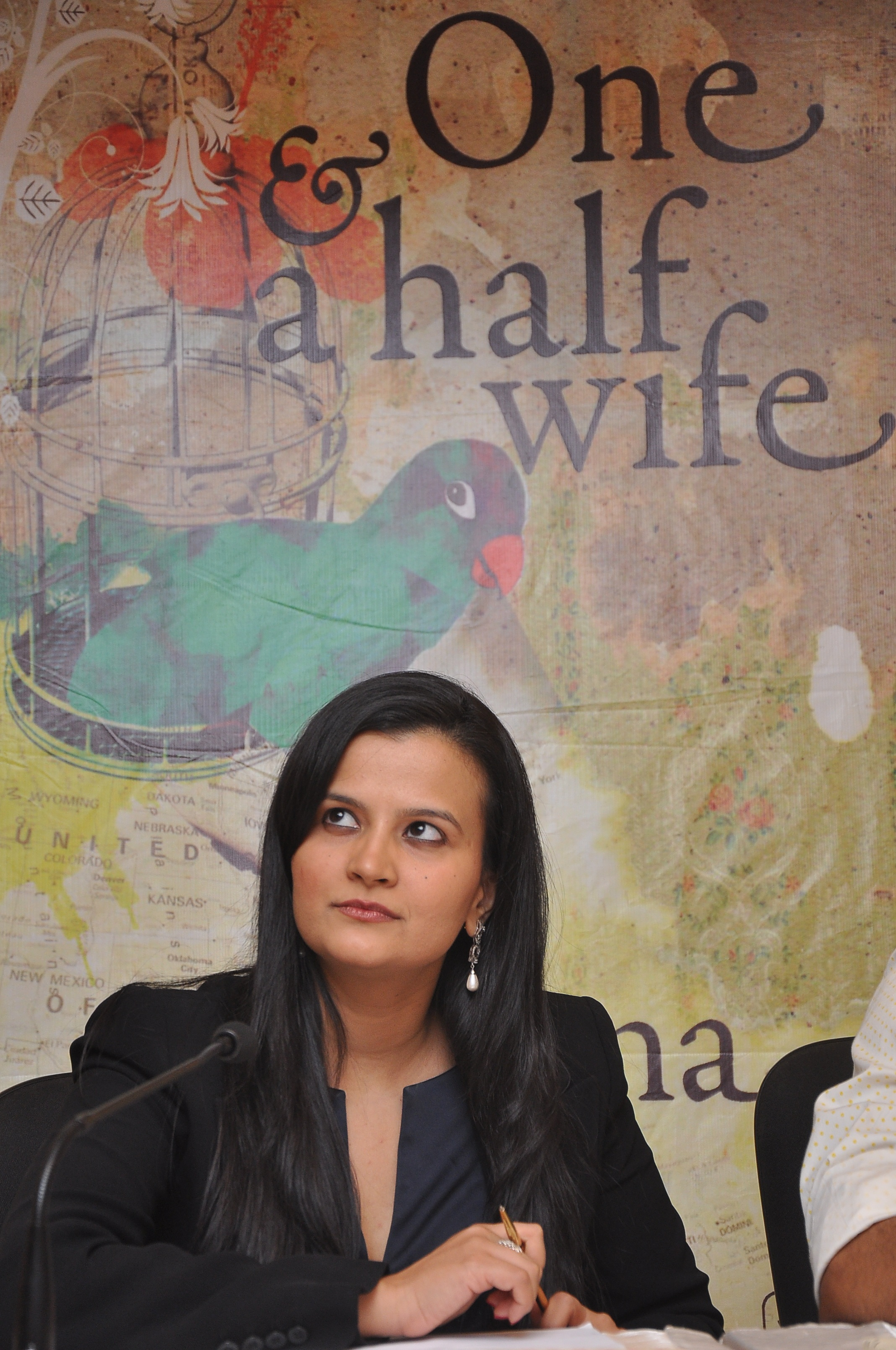 Meghna Pant at book launch